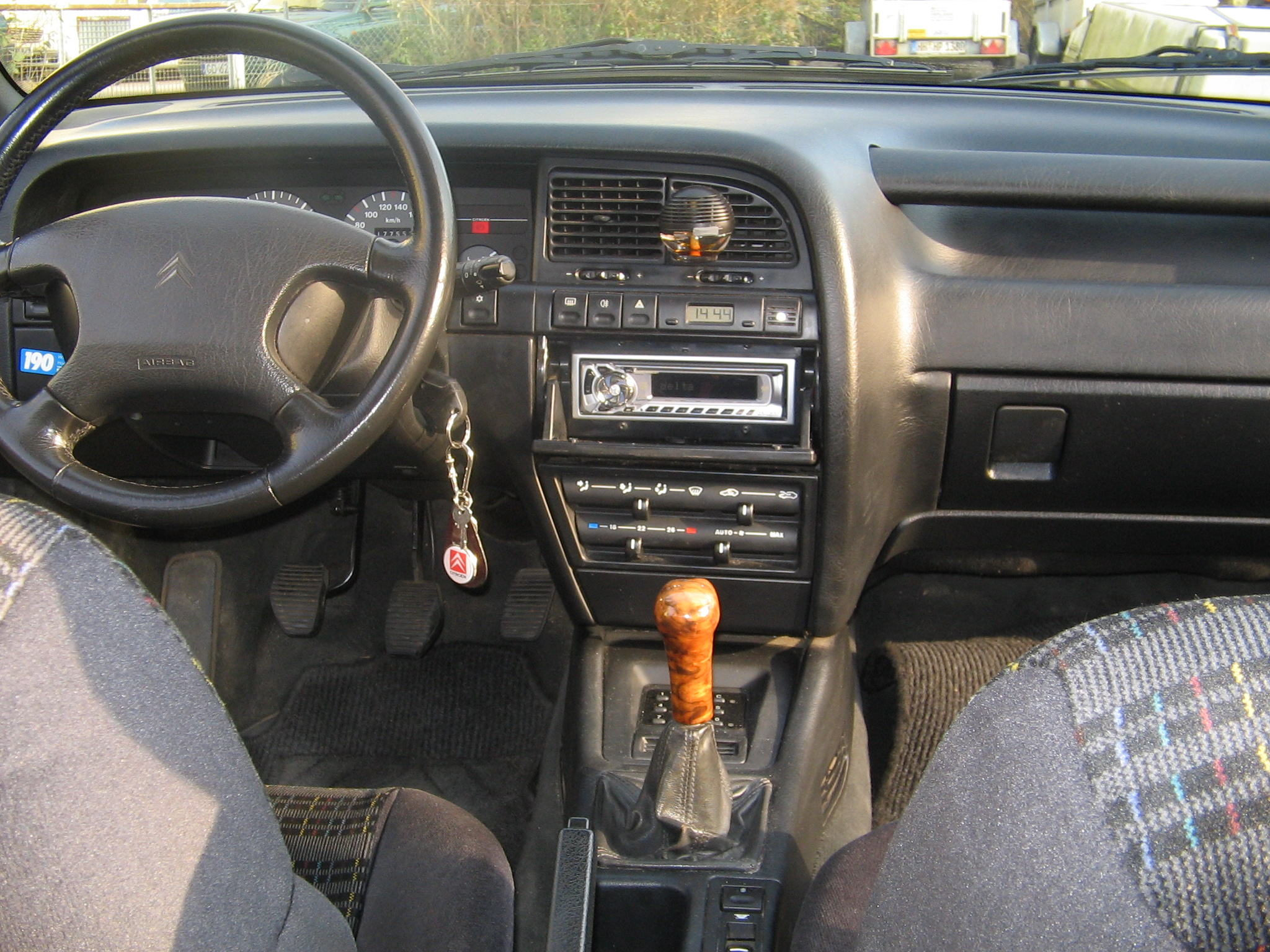 Cockpit View of a Citroen Xantia